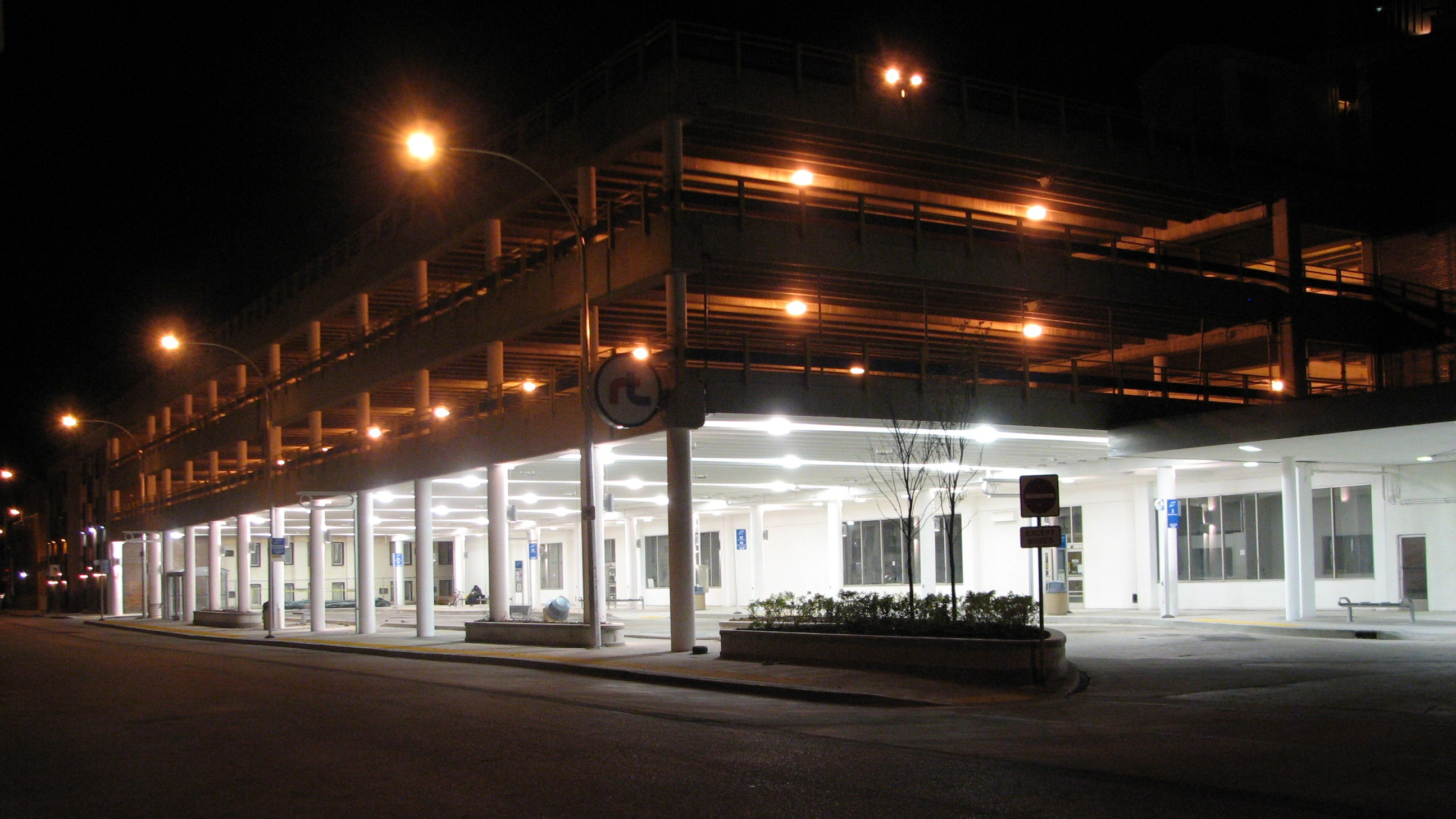 The new Winnipeg Transit terminal on Balmoral Street